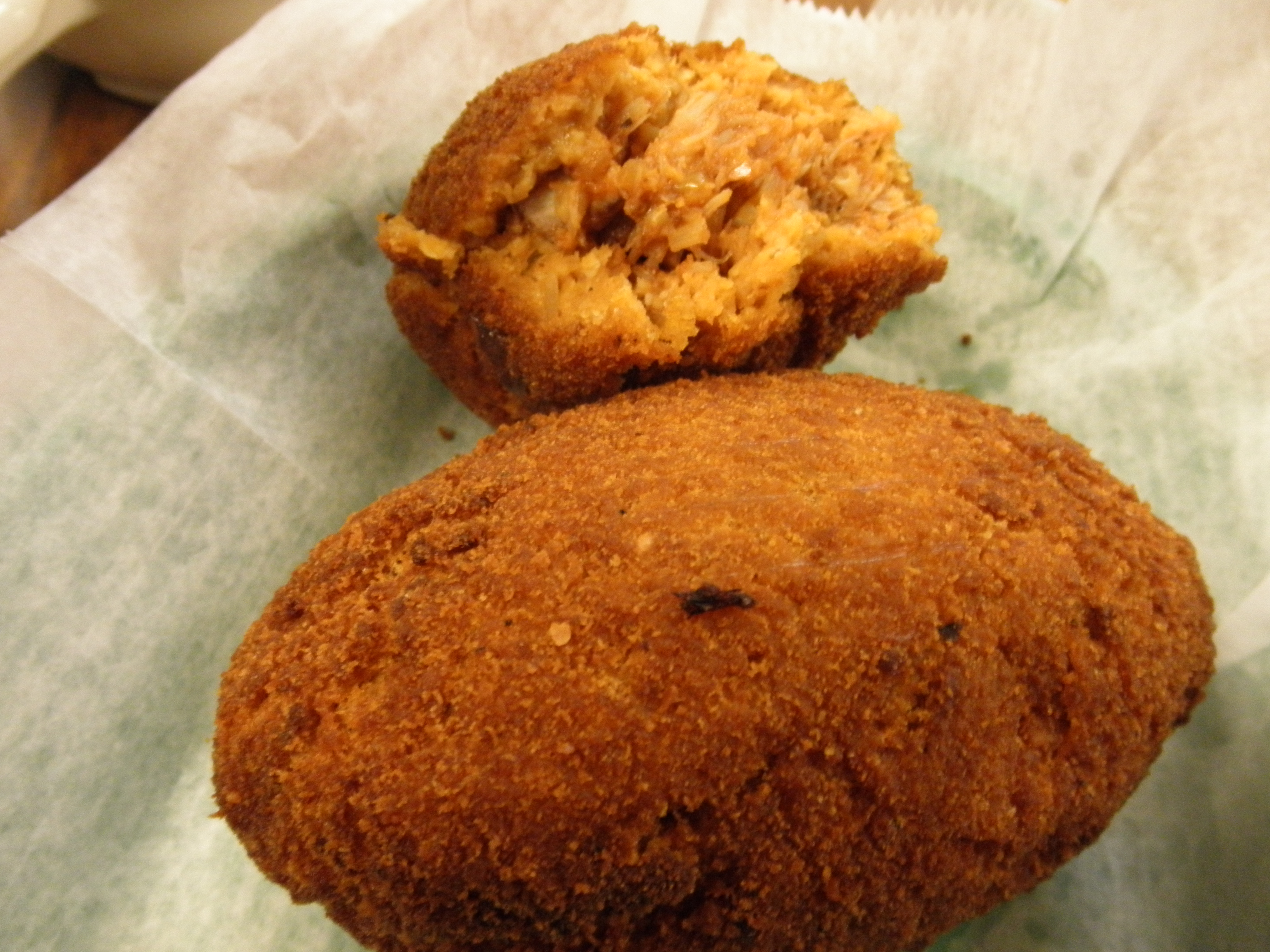 A half and a whole deviled crab (croquetta de jaiba) from a cafe in Ybor City, Tampa, Florida.